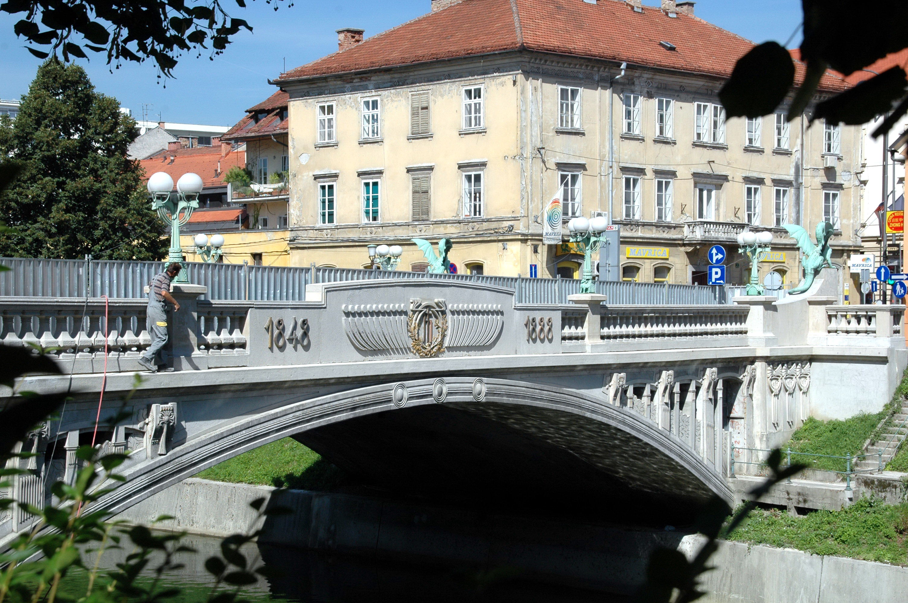 Dragon-bridge across the Ljubljanica river in Ljubljana (Laibach), Slovenija